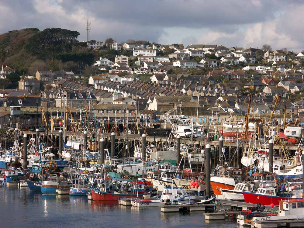 Newlyn Harbour